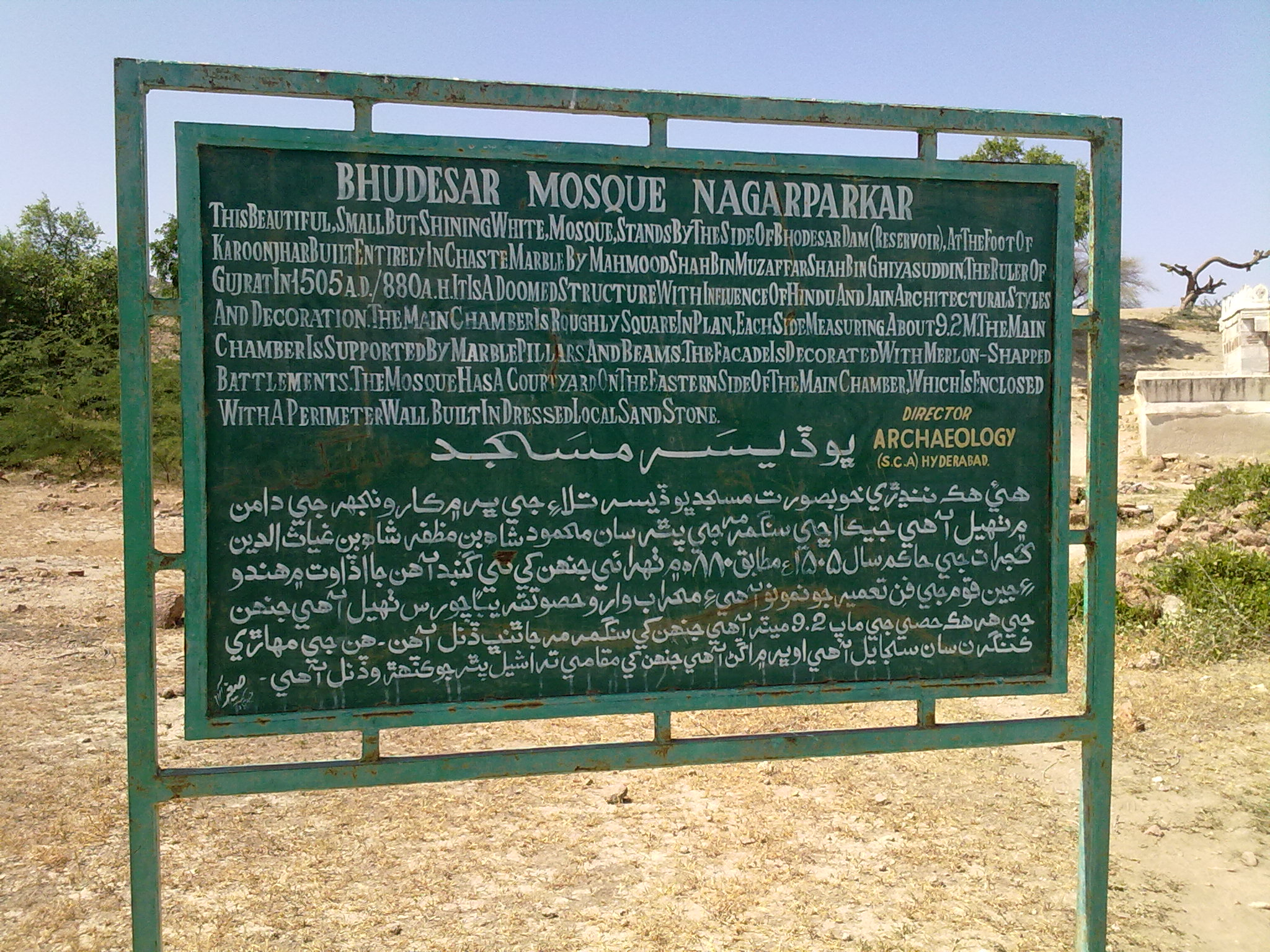 Bhudesar Mosque information